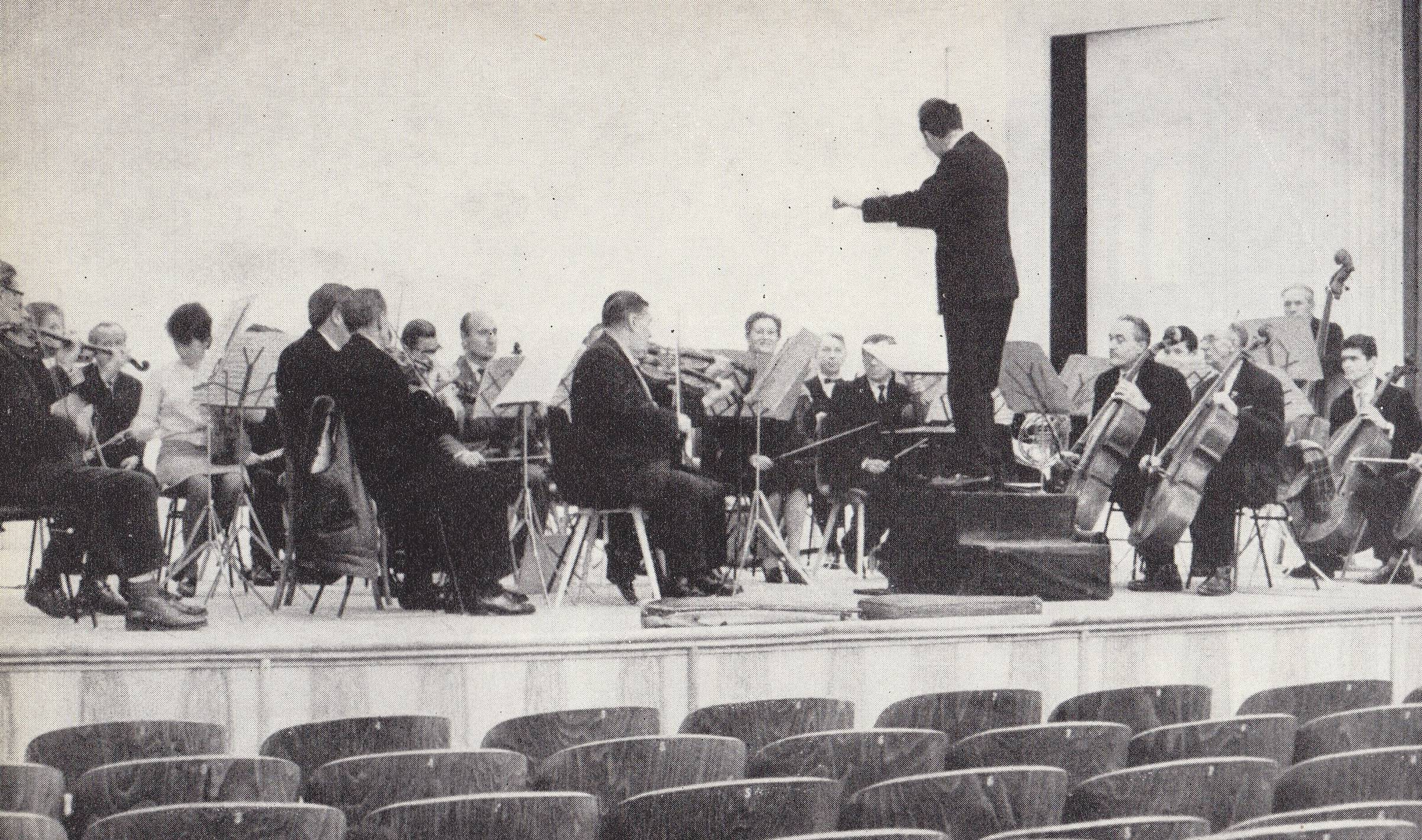 Radom Symphony Orchestra - rehersal